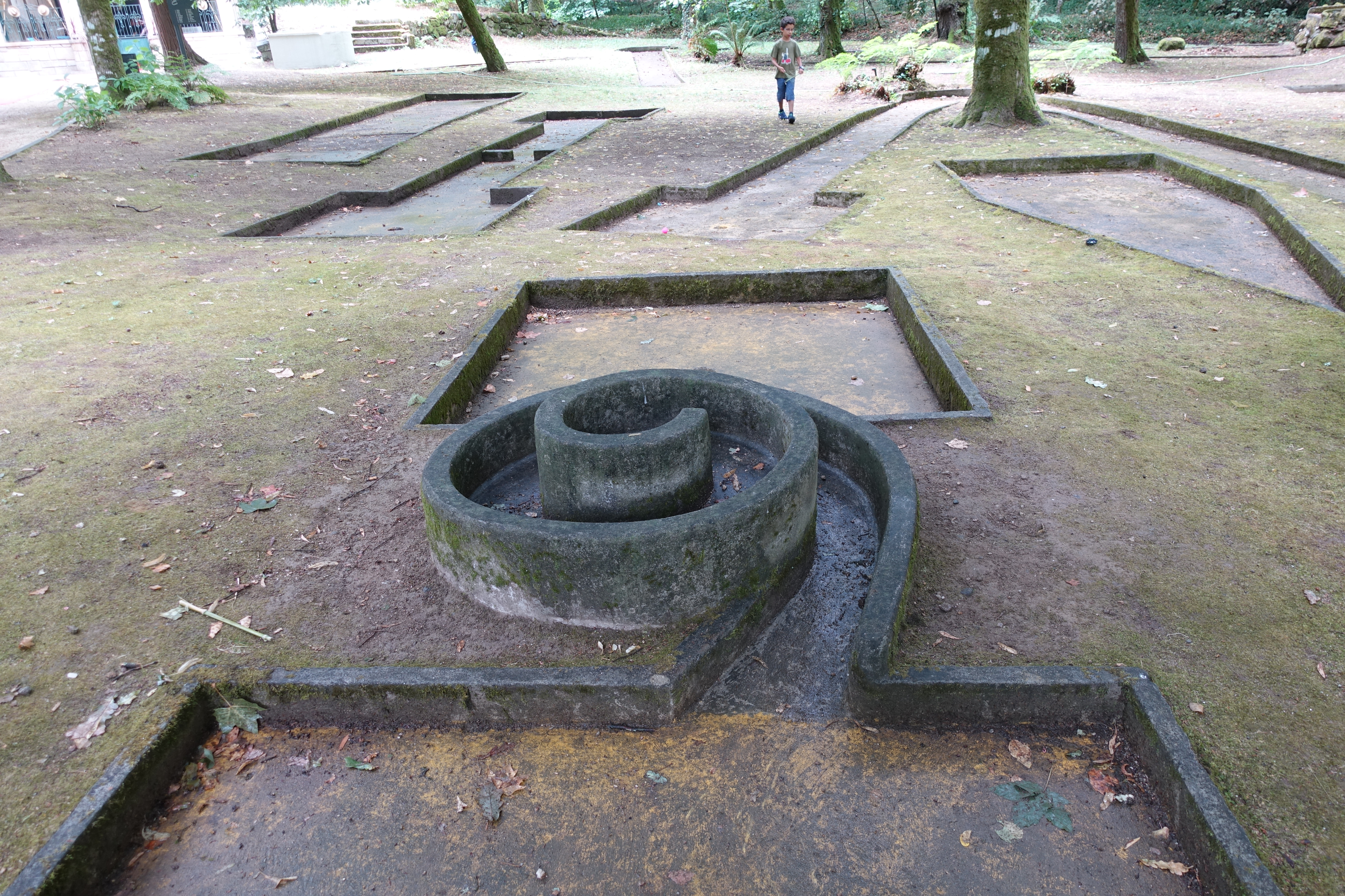 Miniature golf in Termas de Melgaço, Portugal.